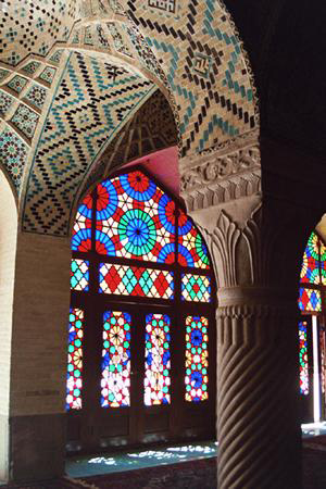 Stained glass windows and mosaics in Nasir ol Molk mosque — Shiraz, Iran.